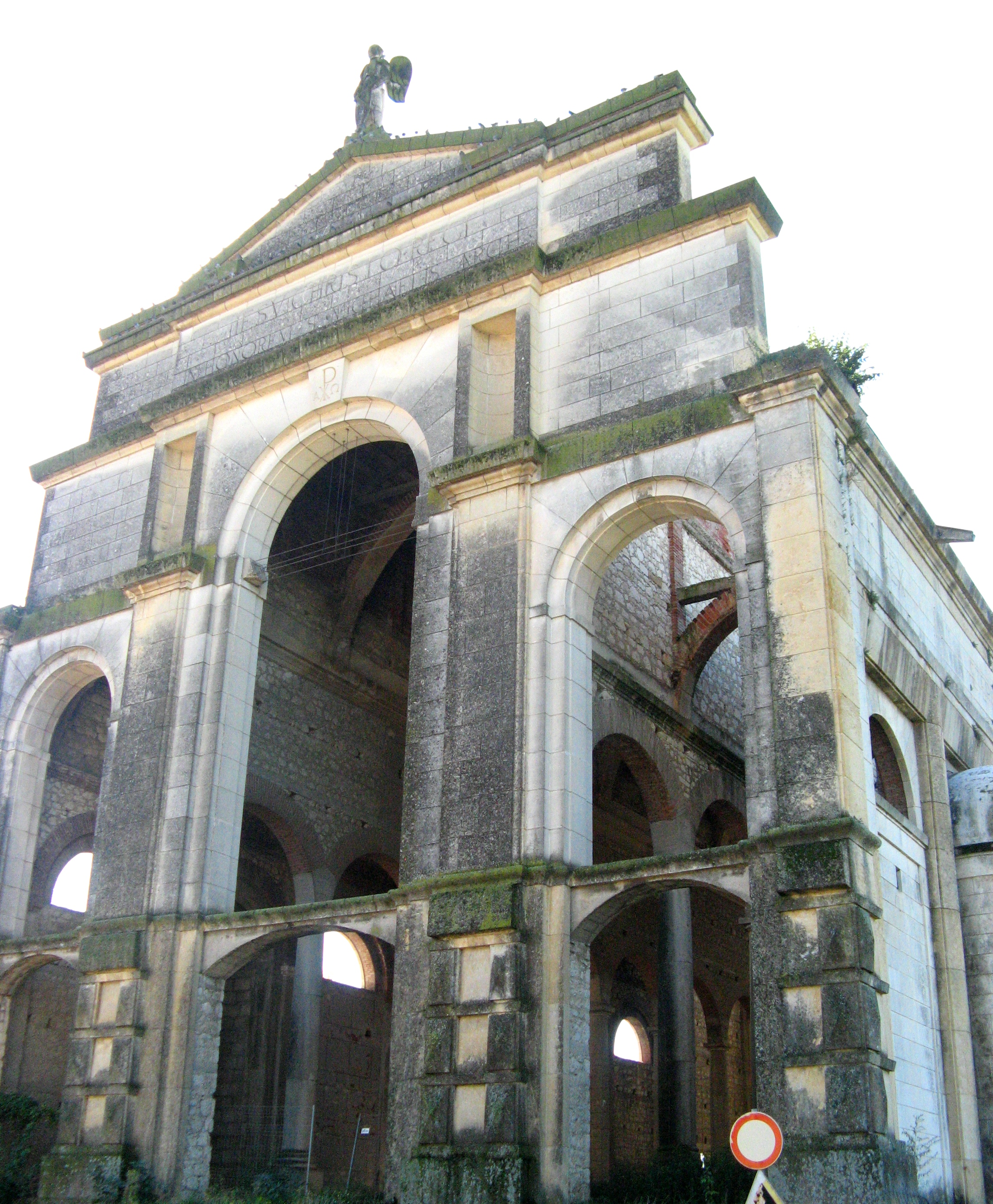 Front of "Incompiuta" (Incomplete) Cathedral of Brendola, Italy.